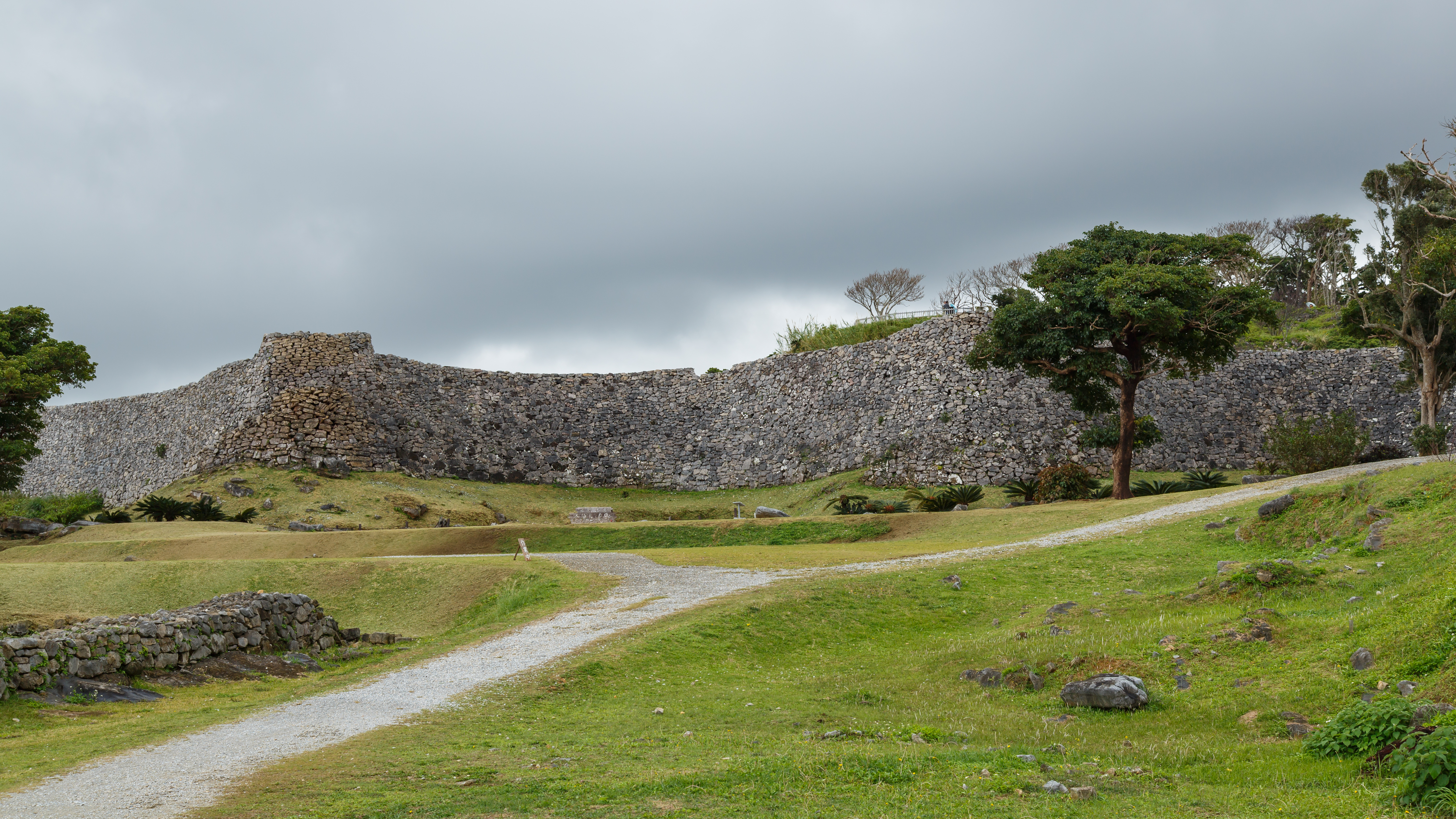 Nakijin, Okinawa, Japan: Walls of Nakijin Castle.